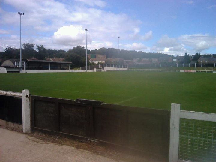 This is picture of Cinderford Town AFC home ground. The Causeway